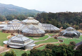 Garden center - Guangzhou - China 2006 - RICHEL Serres de France